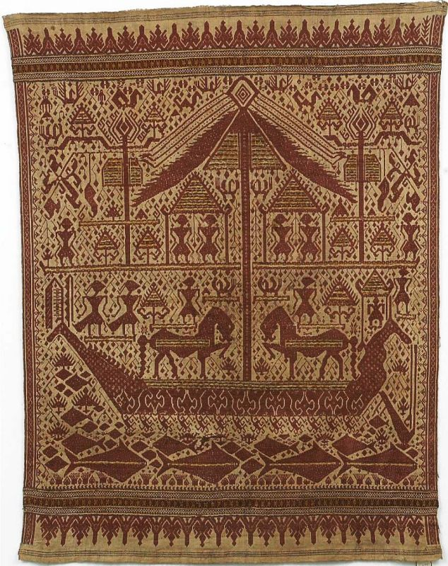 Palepai, Sumatran ships cloth Unknown language: Tampan pengantar